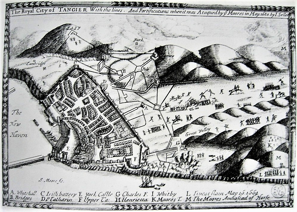 The port of Tangier, 1680. England gained Tangier from the marriage treaty with Portugal in 1661. Under constant threat from the "Moors", and after trying in vain to sell the place to Portugal or France, England abandoned expensive Tangier in 1683. Contemporary engraving, London, National Army Museum.